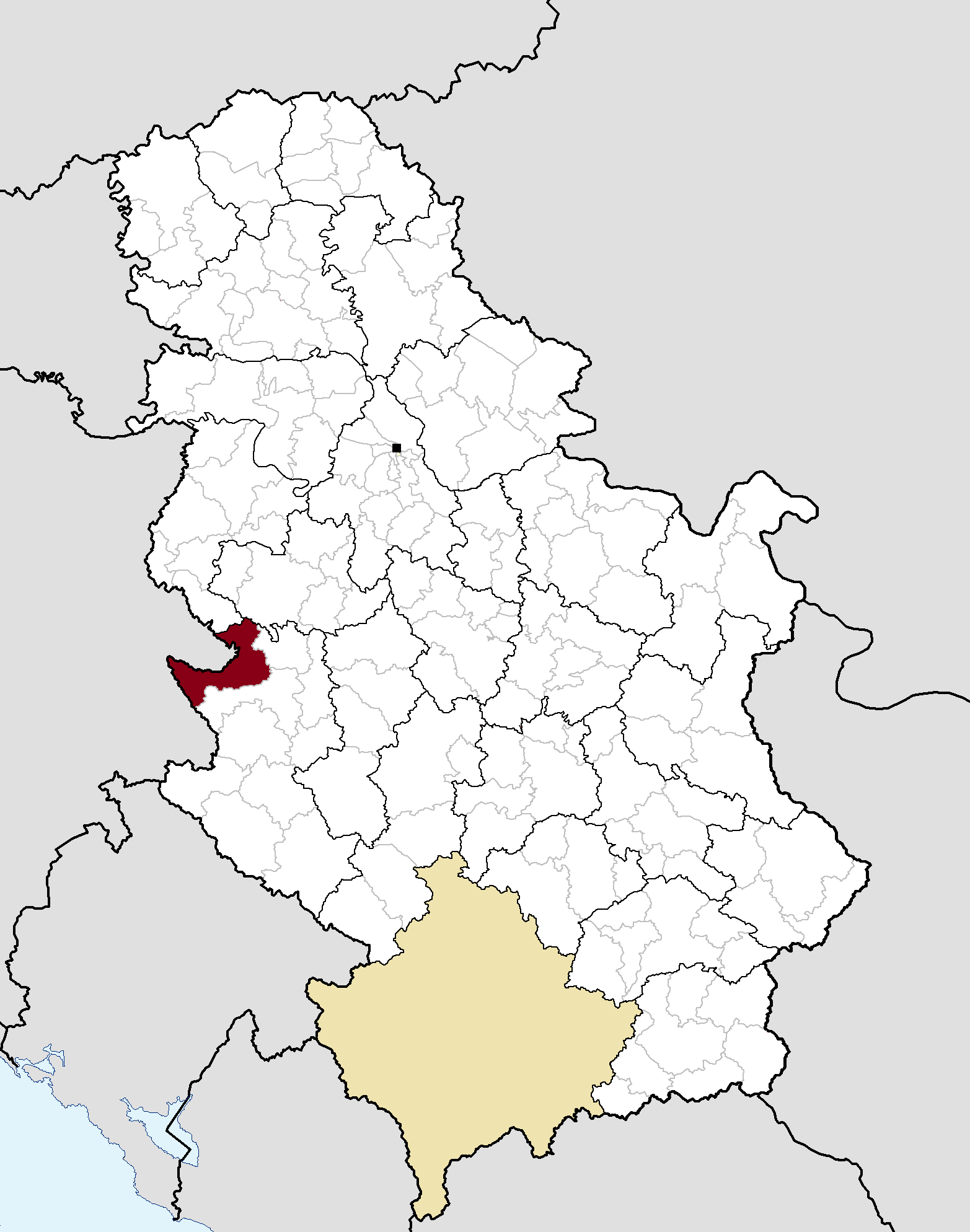 Municipal location in Serbia